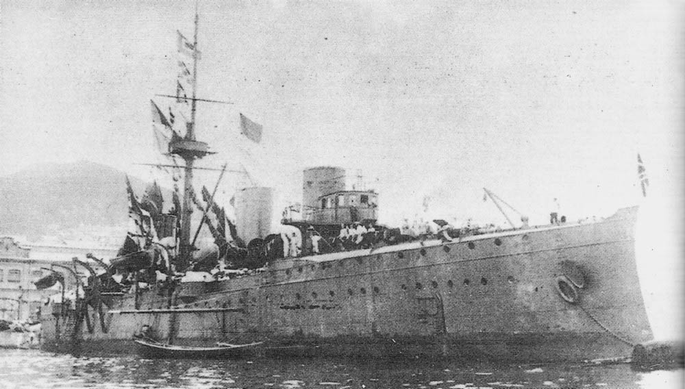 The Imperial Russian cruiser Zhemchug, after 1909 years.